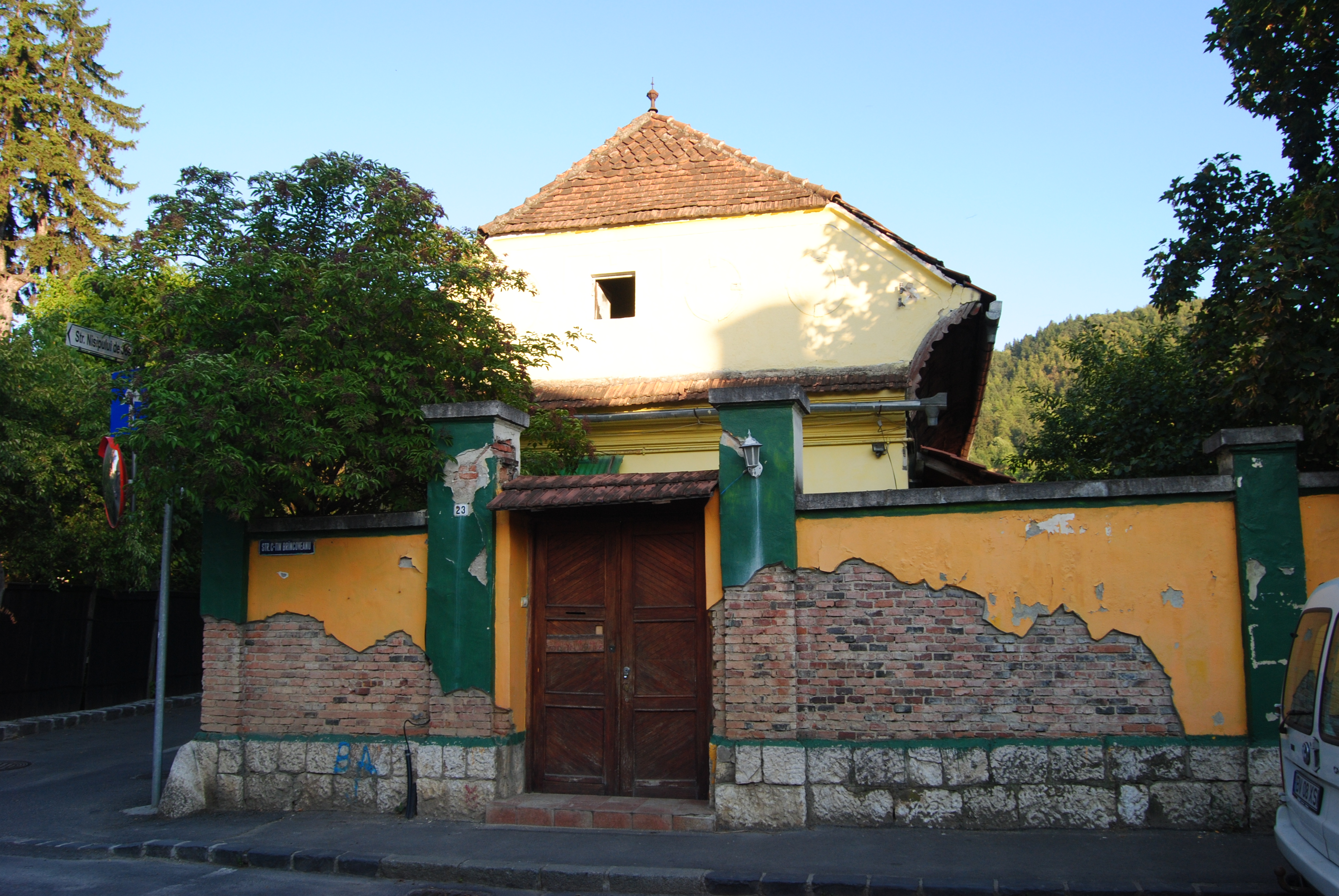 House; 23 Brâncoveanu Constantin st., Brașov, Romania